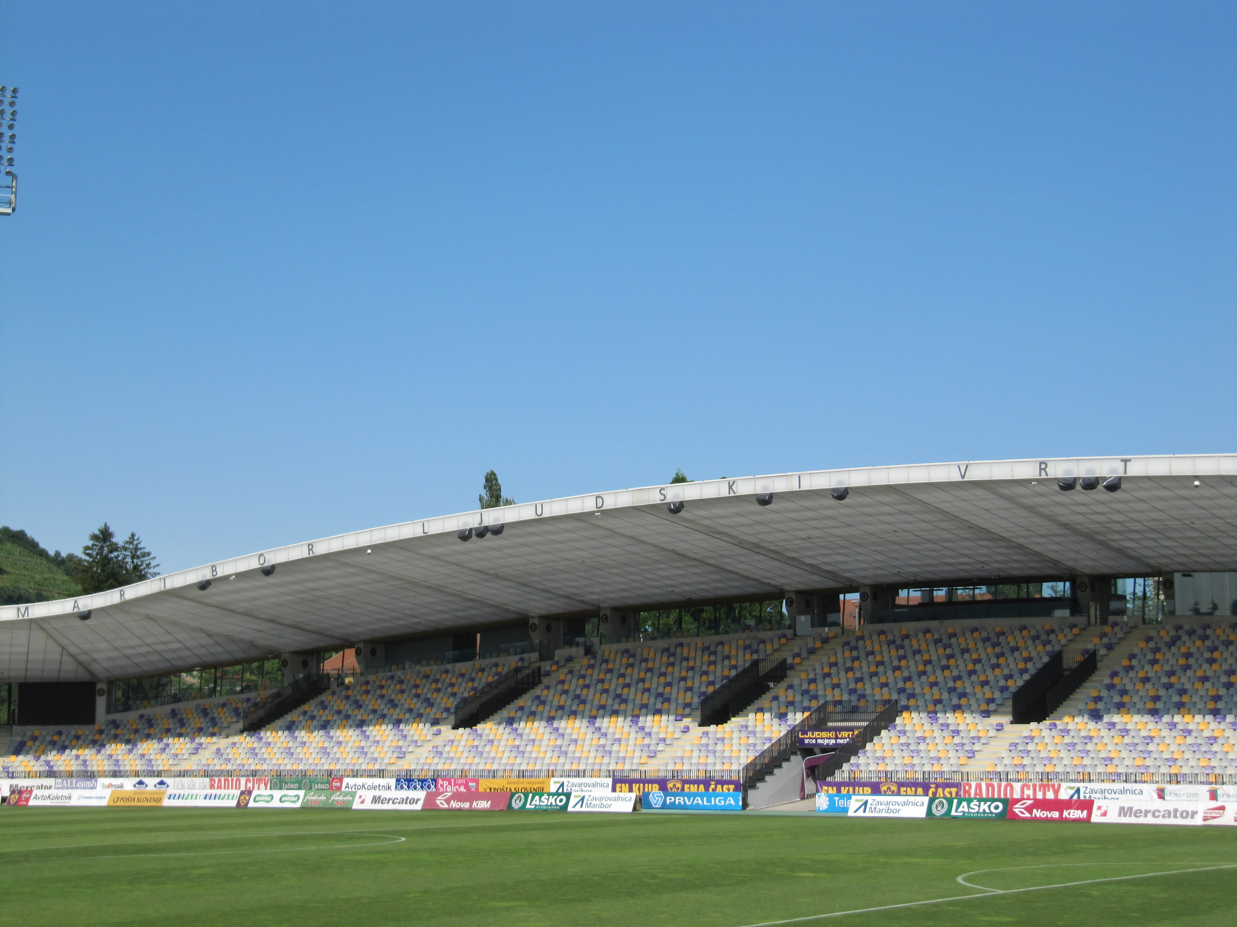 East stand of Ljudski vrt Stadium in Maribor in July 2015.